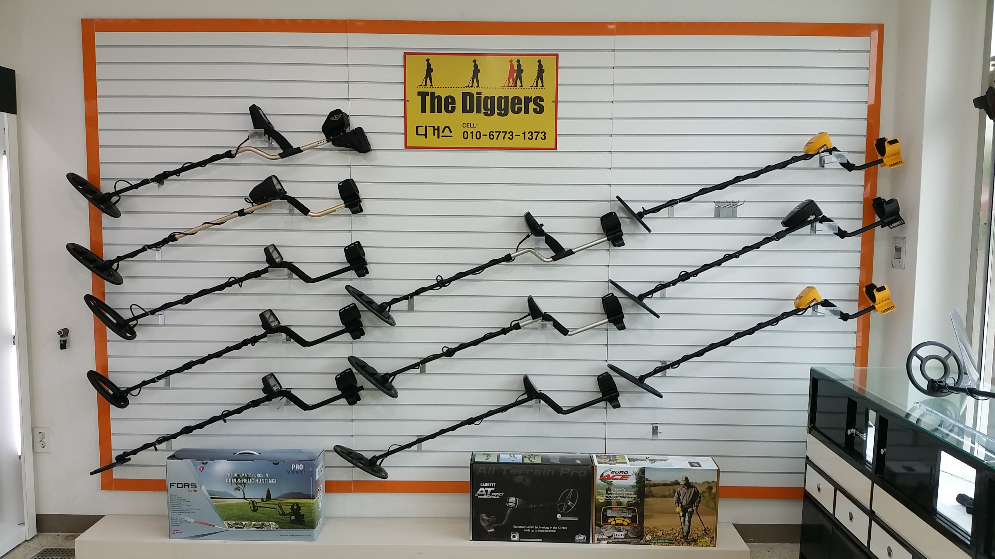 Metaldetector lists